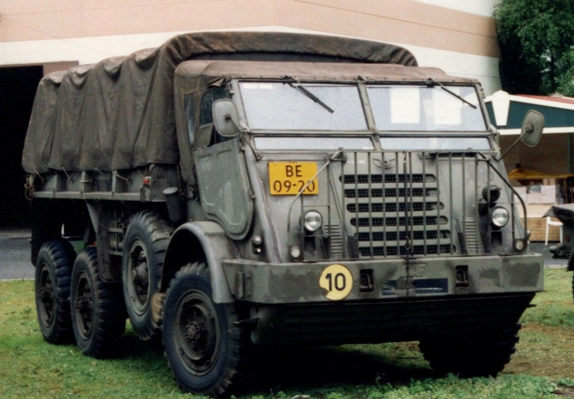 A DAF YA-328 at an event for vintage cars in Germany. I couldn't believe that was a DAF when I saw it for the first time.